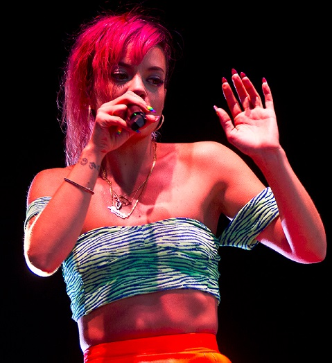 Cropped from File:Lily Allen at Southside Festival 2014 in Neuhausen ob Eck.jpg